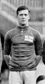 Swedish footballer Gustav "Skädda" Sandberg at the Olympics, 1912. In lineup before game against Netherlands, 29 of June.